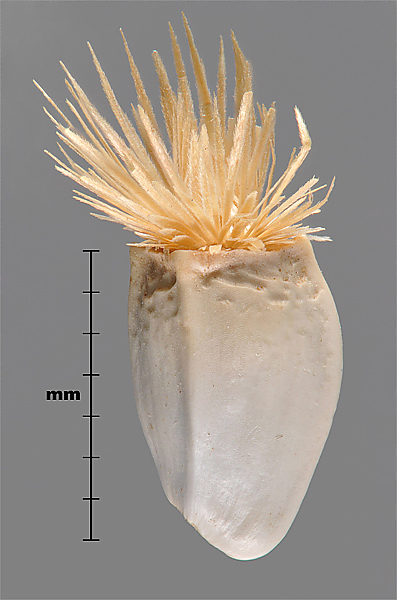 Safflower (Carthamus tinctorius) achene